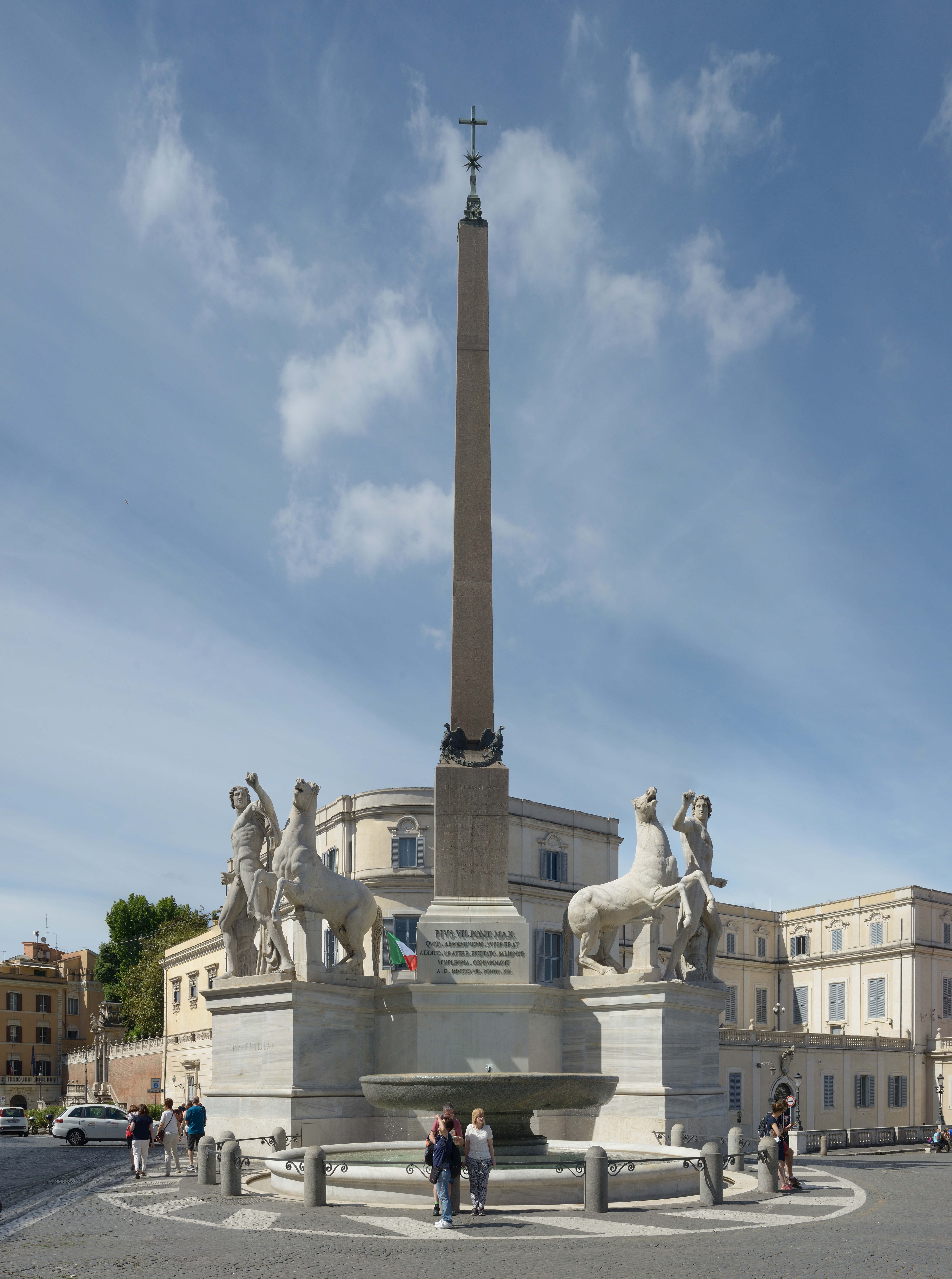 The Fontana dei Dioscuri fountain on Piazza del Quirinale and Scuderie del Quirinale at the Quirinal Palace in Rome.